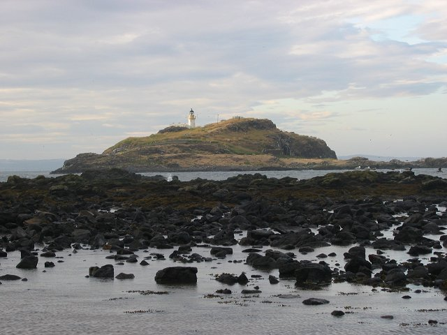 Fidra island near North Berwick.